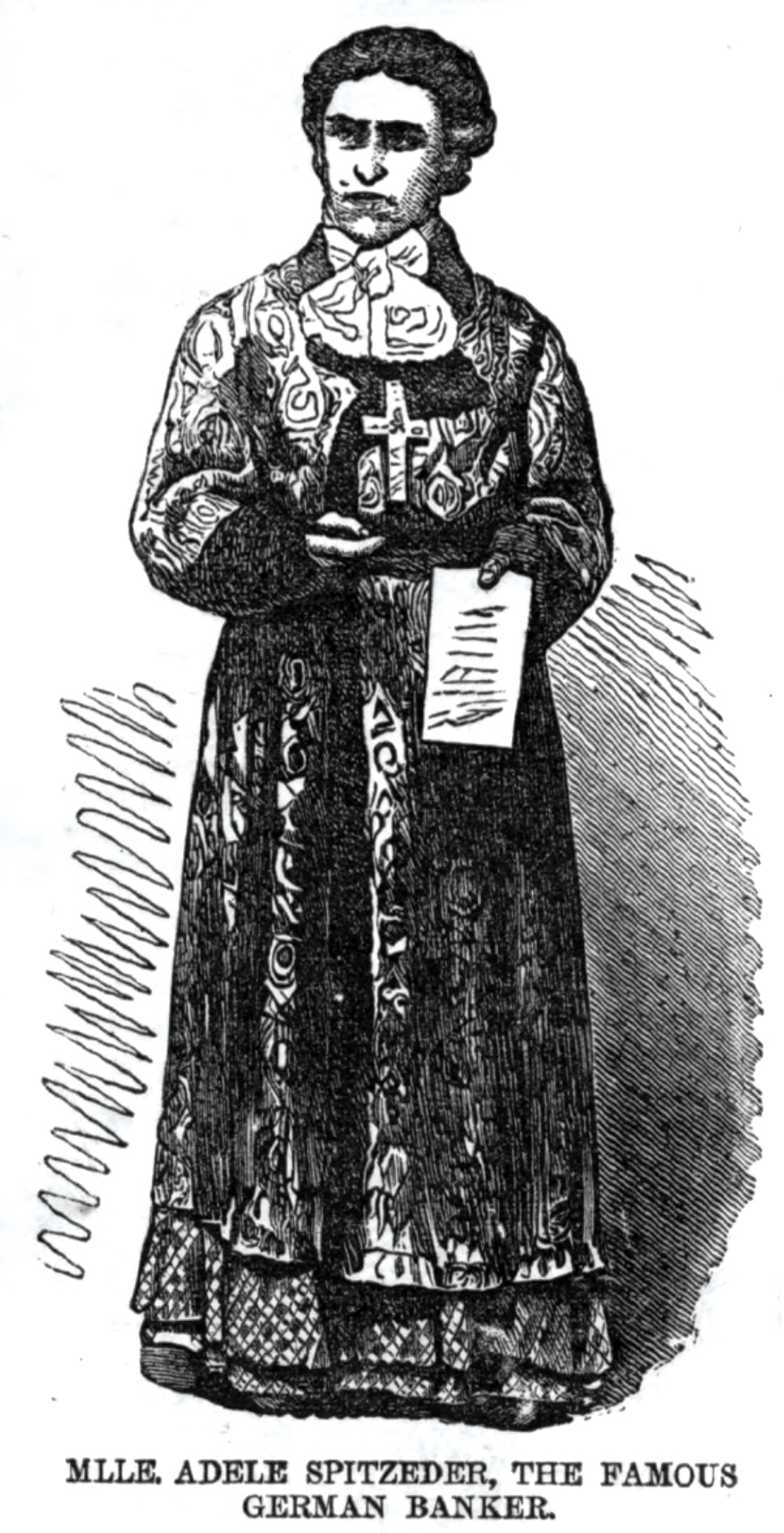 Sketch of Adele Spitzeder in Harper's Weekly 1873